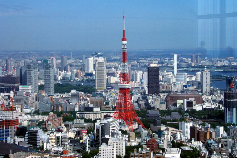 World's tallest self-supporting steel tower.